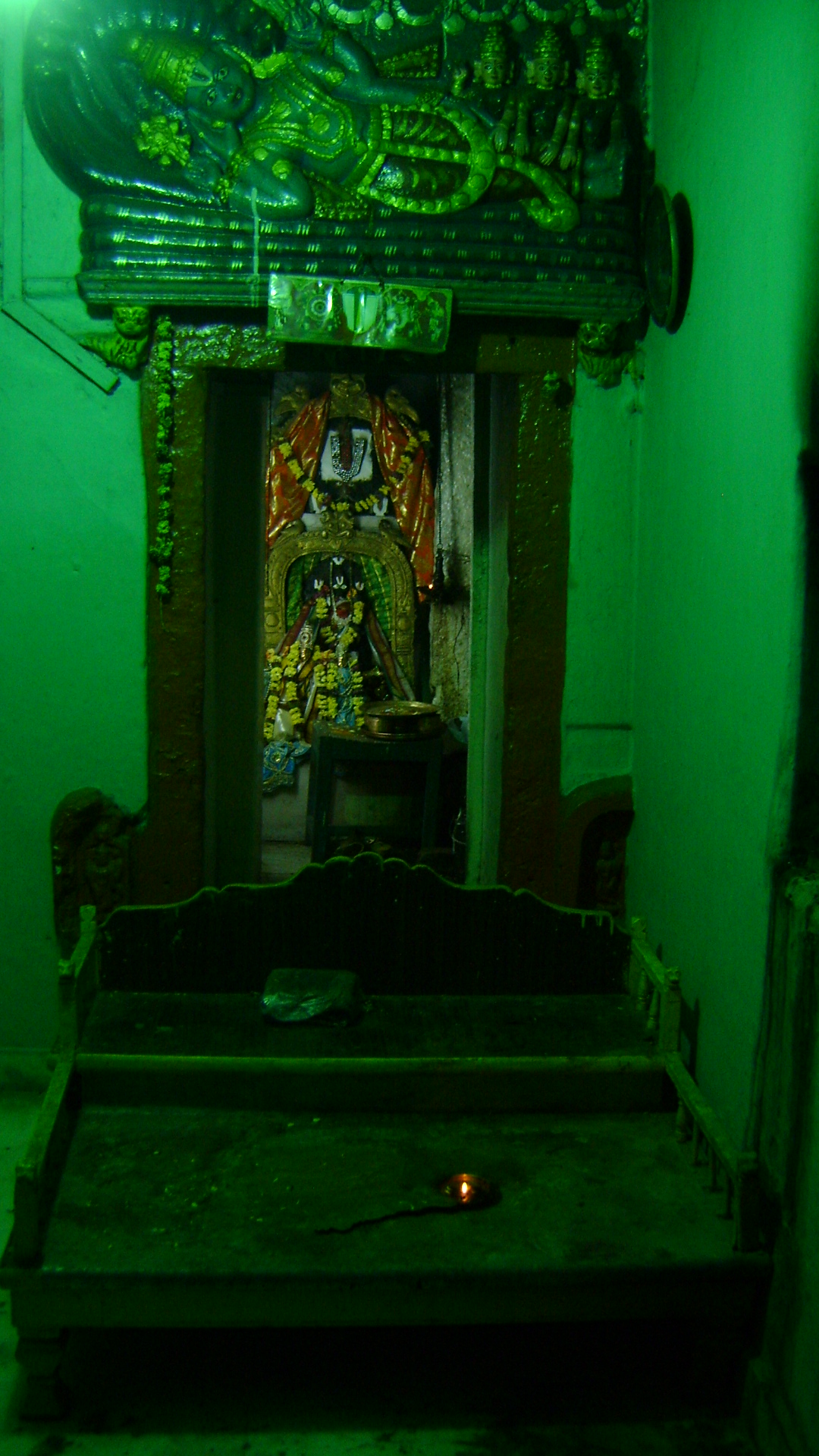 Chenna keshava temple keshavagiri hyderabad